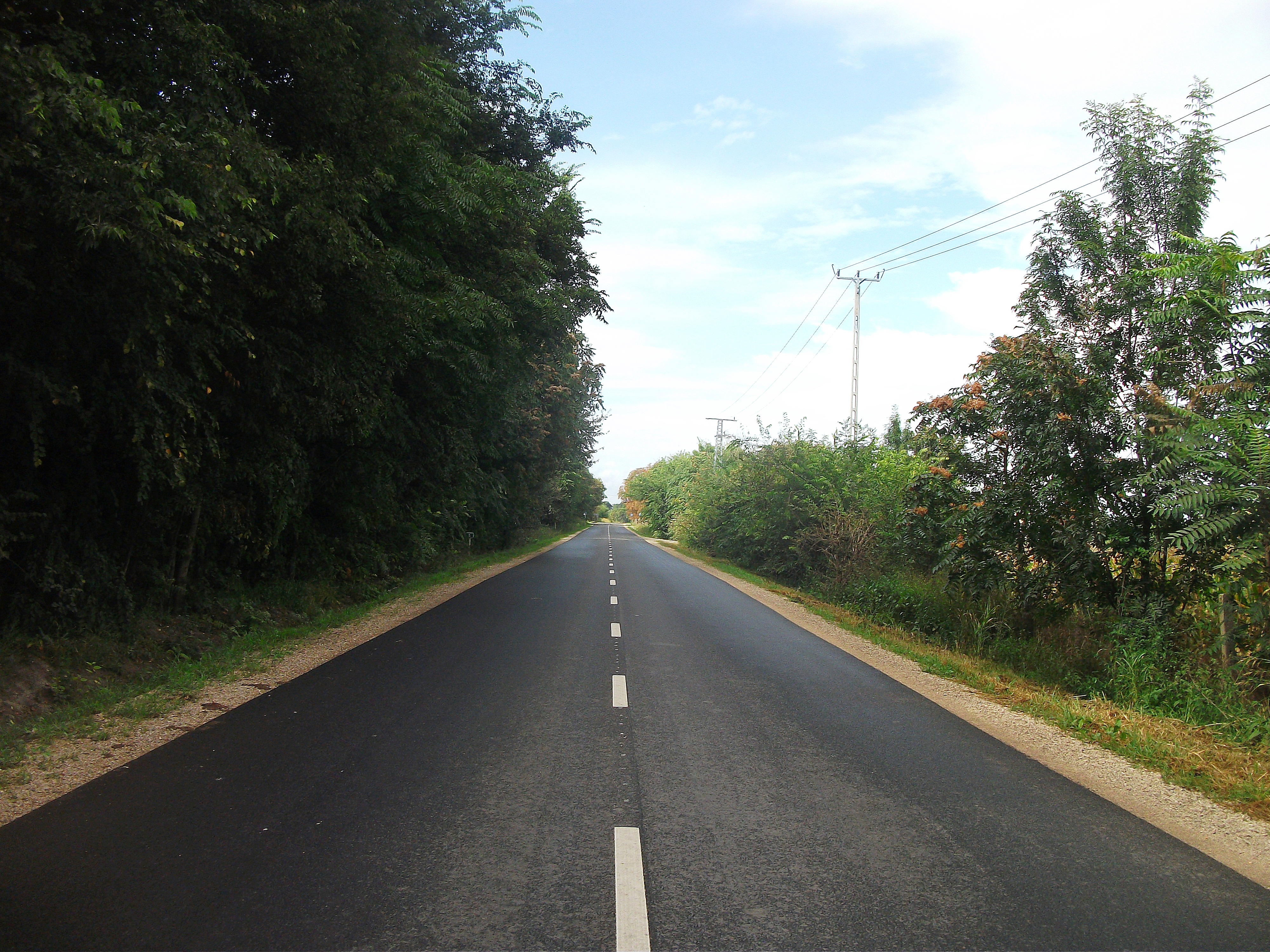 Route 6212 near Zichyújfalu, Hungary.